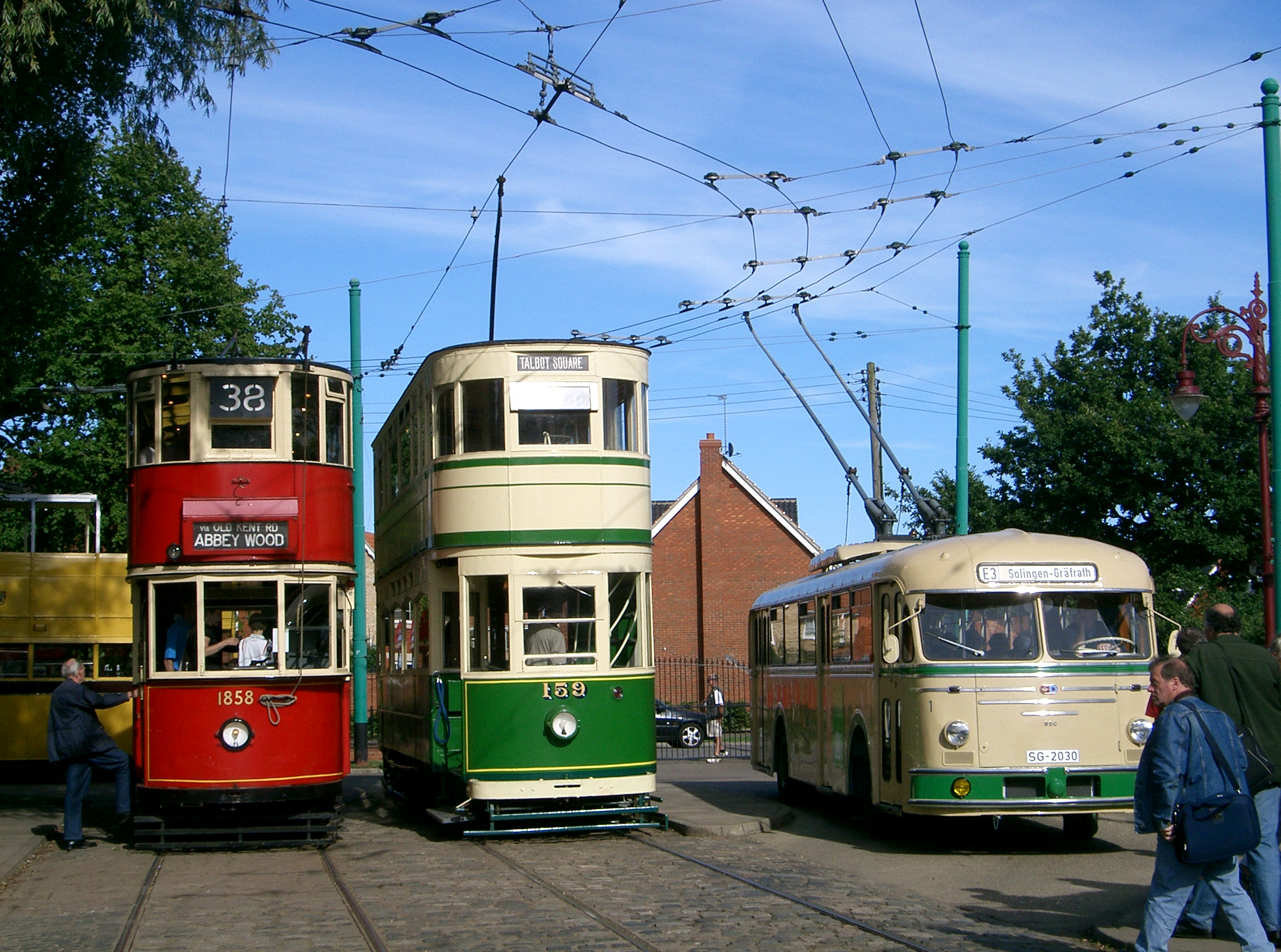 Bournemouth 202, London 1858, Blackpool 159, Solingen 1 at the East Anglia Transport Museum.